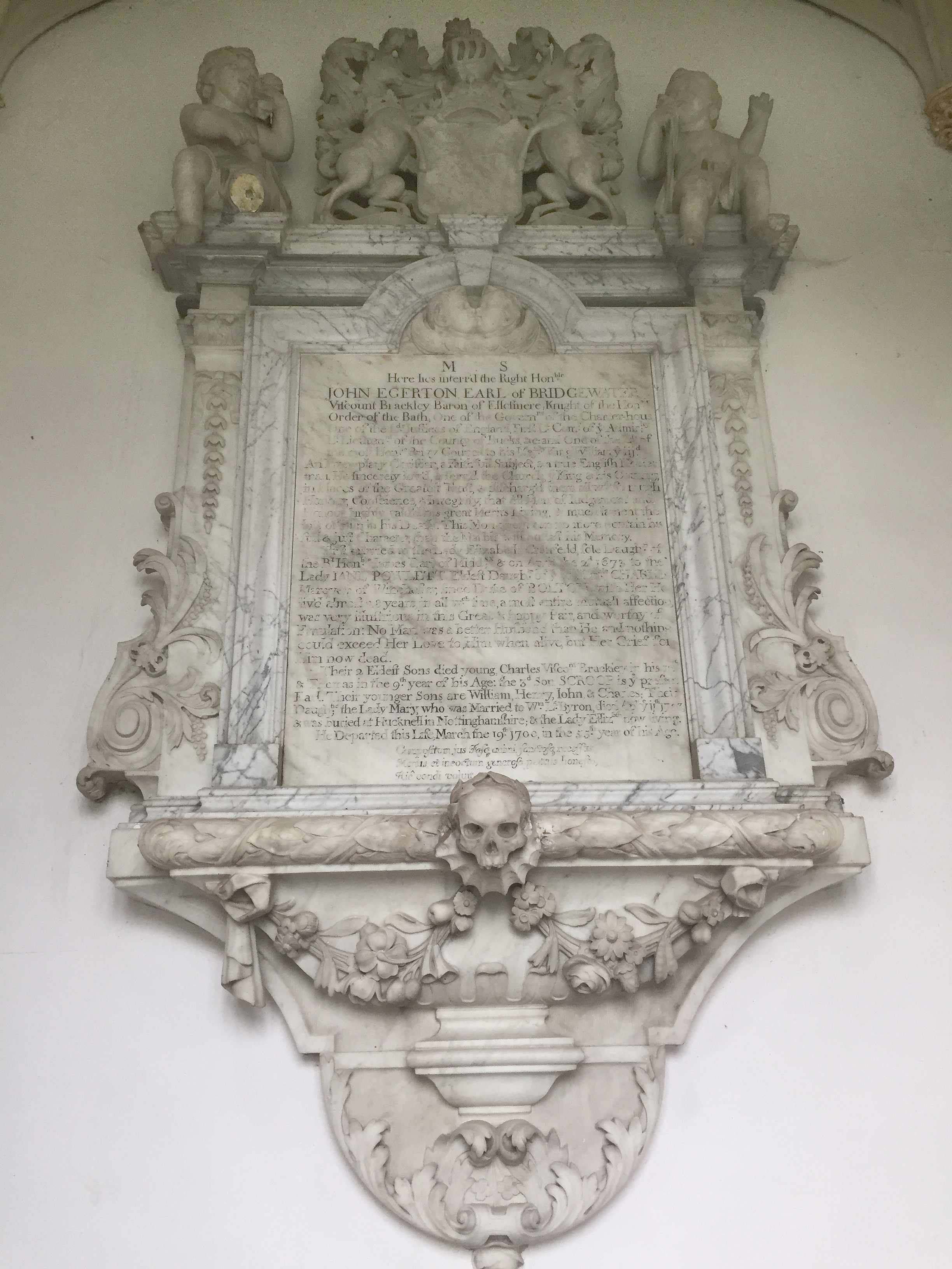 MeMorial to John Egerton, 3rd Earl of Bridgewater in the Church of St Peter & St Paul, Little Gaddesden, Hertfordshire, England